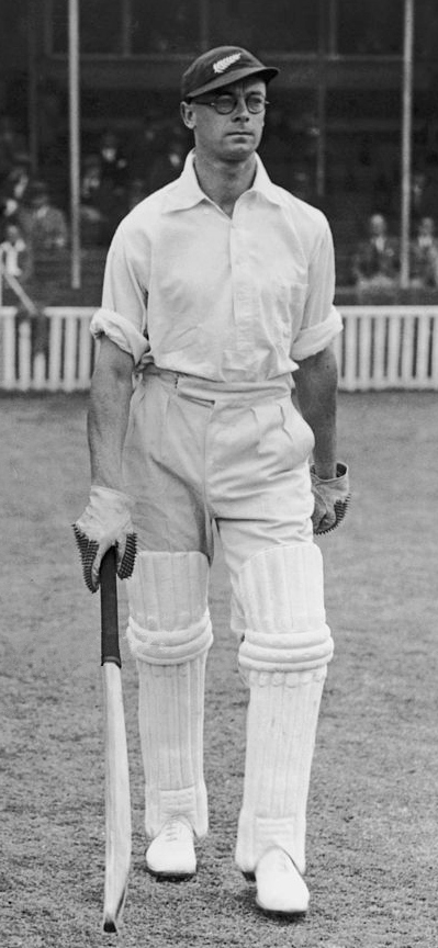 New Zealand cricketer Walter Hadlee (1915 - 2006) coming out to bat at the 3rd Test against England at the Oval, 1937.